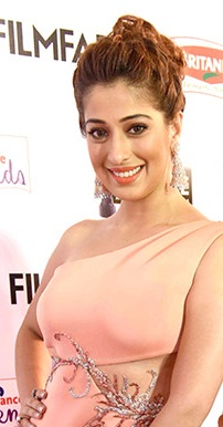 Raai Laxmi at Filmfare South Awards 2014